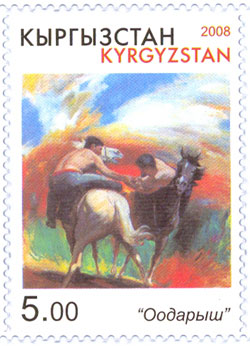 Stamp of Kyrgyzstan. "The kyrgyz national games - Oodarysh (overthrow)"